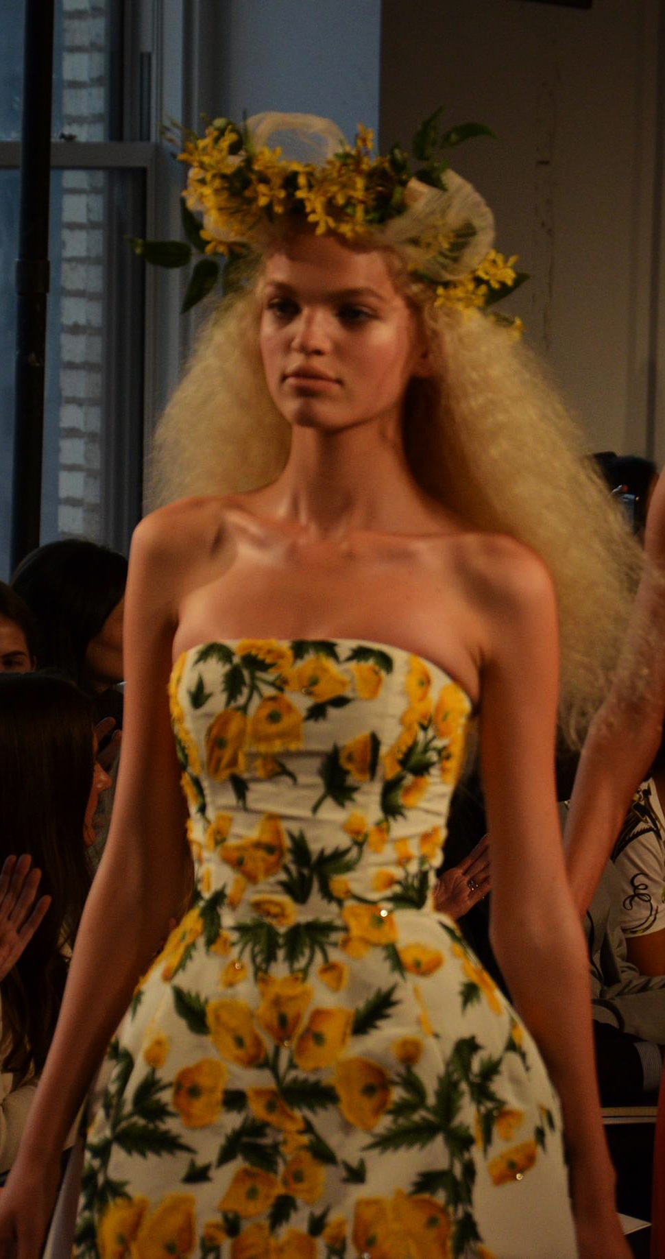 Fashion Week SS2012